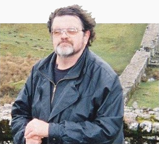 Game designer, developer, and editor Loren Wiseman on Hadrian's Wall.